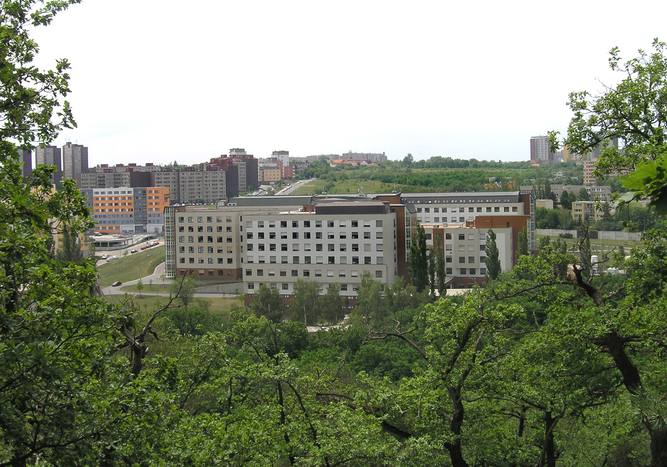 Institute for Clinical and Experimental Medicine at Krč, Prague